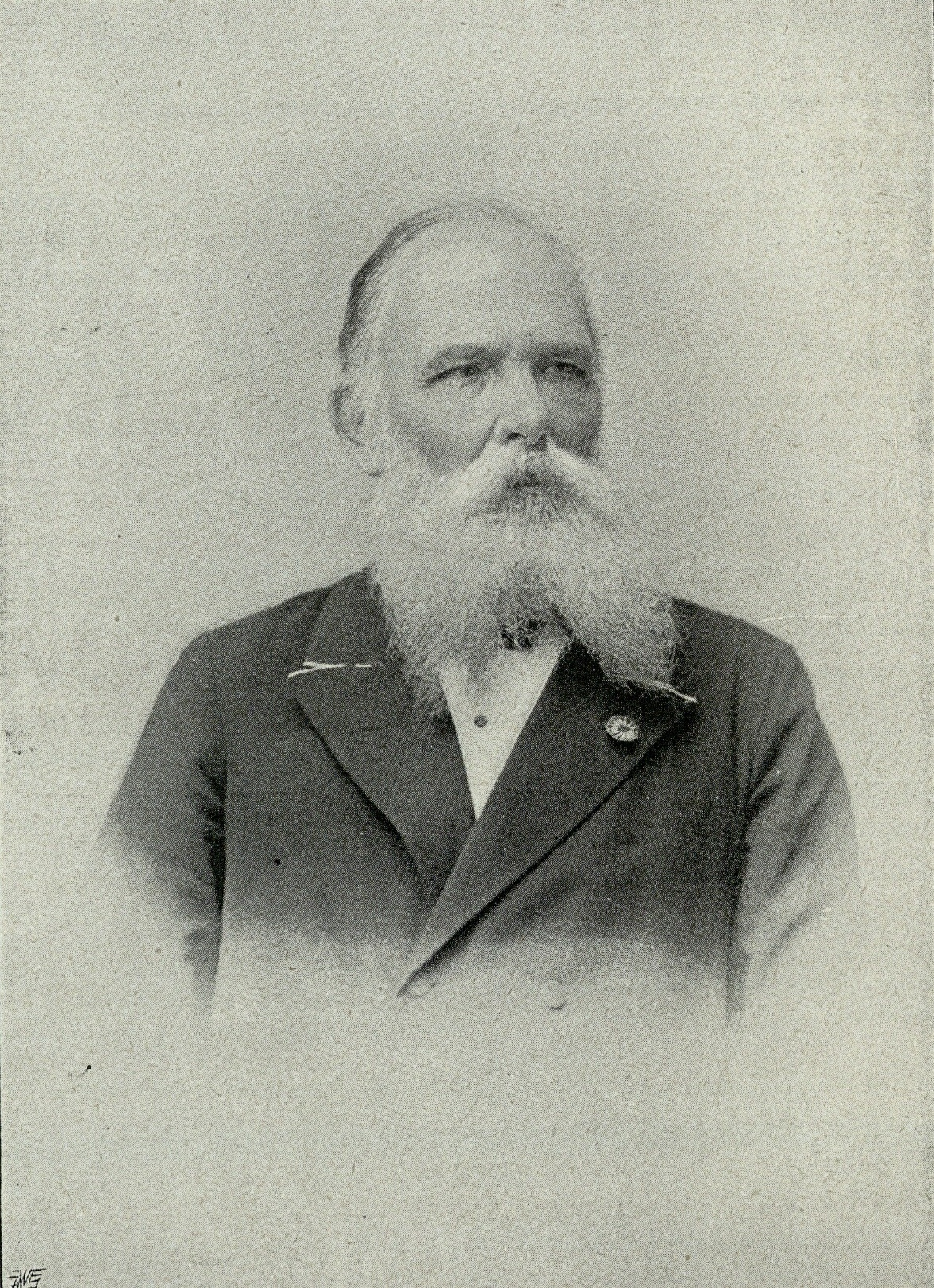 Dr Adolf Mikołaj Rothe (1832-1903)